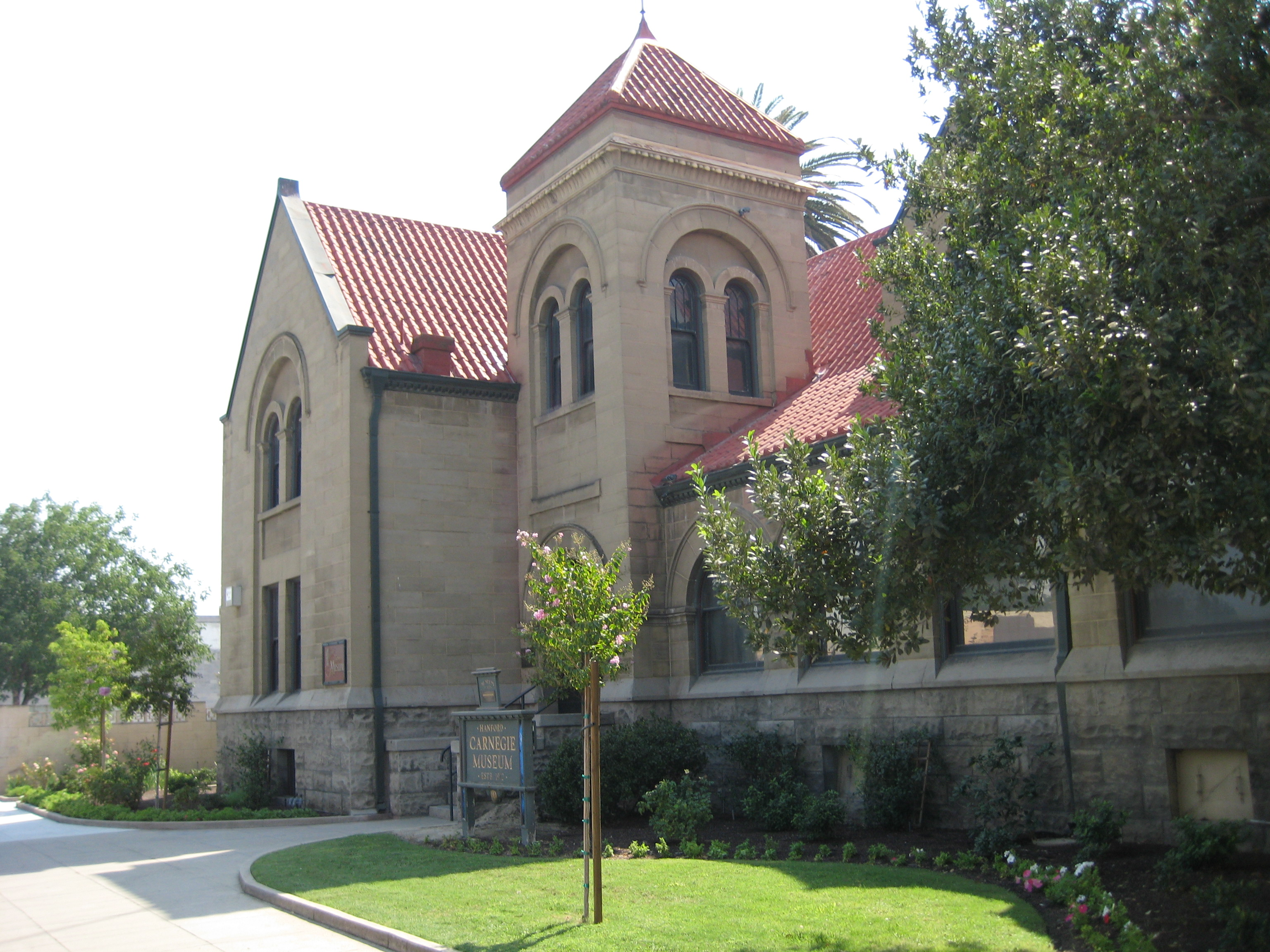 The Hanford Carnegie Museum — in the former Carnegie library, in Hanford, Kings County, central California. Present day museum of the history of Kings County. The 1905 building was designed in the Romanesque Revival style, with Richardsonian Romanesque facade elements. Taken by myself on September 9, 2007.